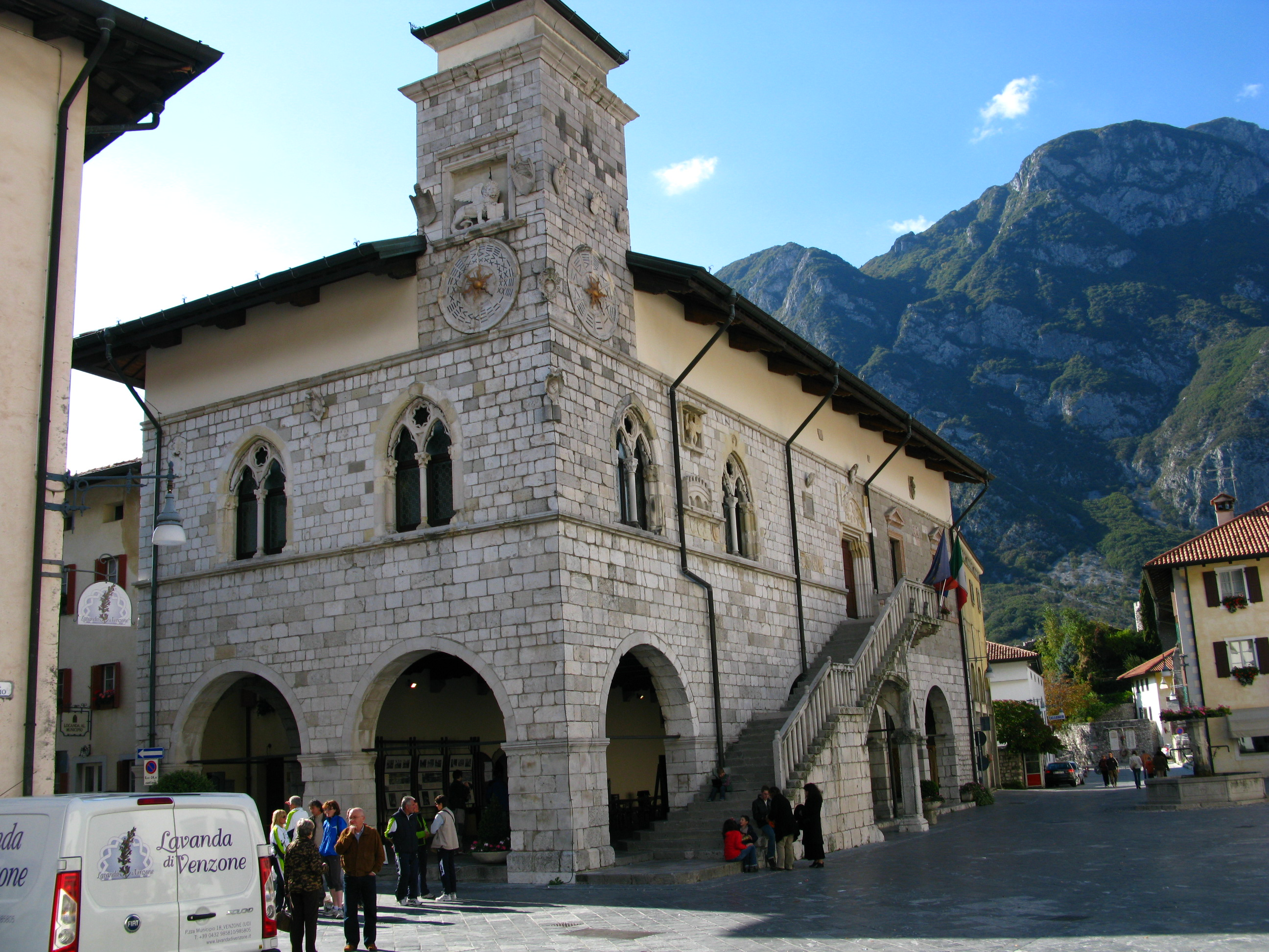 Municipal palace (Palazzo Comunale) of Venzone / Tagliamento valley / Friuli-Venezia Giulia / Italy / EU. In the background the Monte Simeone.